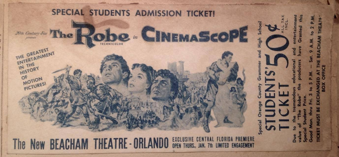 Scanned image of a student ticket for the film The Robe at the Beacham Theatre. (CinemaScope debut)